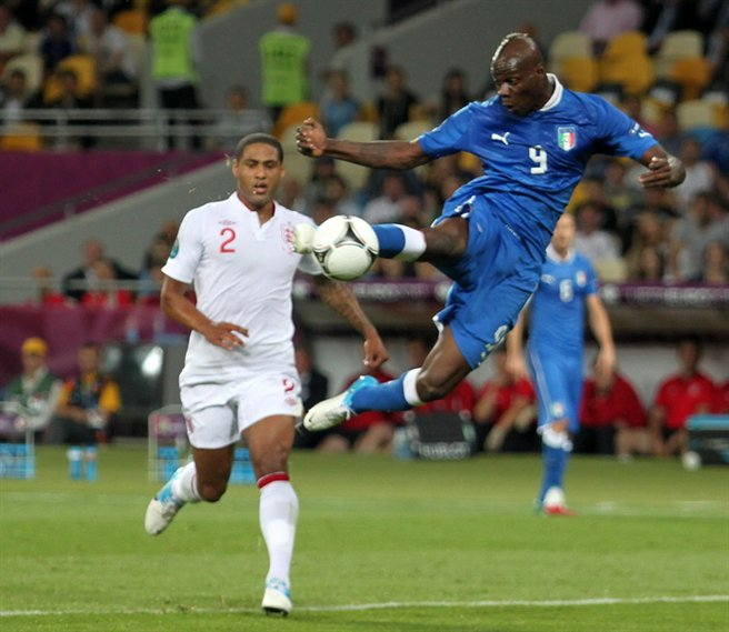 Mario Balotelli shot at Euro 2012 match England-Italy